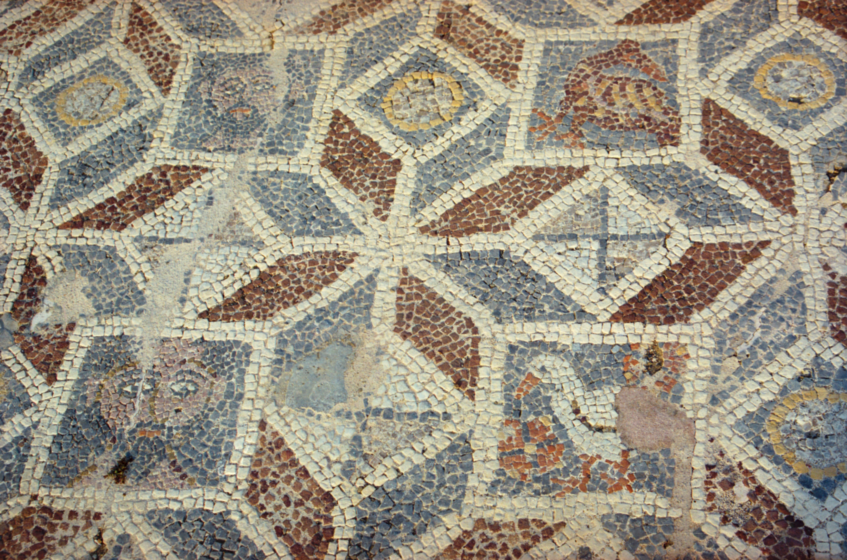 Mosaic in Maltezana near Analipsi, Astypalaia, 5th c AD. Heads of men (the Apostles?) And waterfowl (pelican).